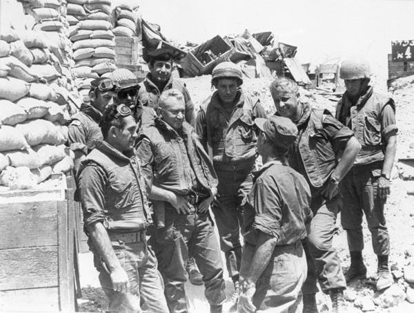 Ariel Sharon, People of Israel